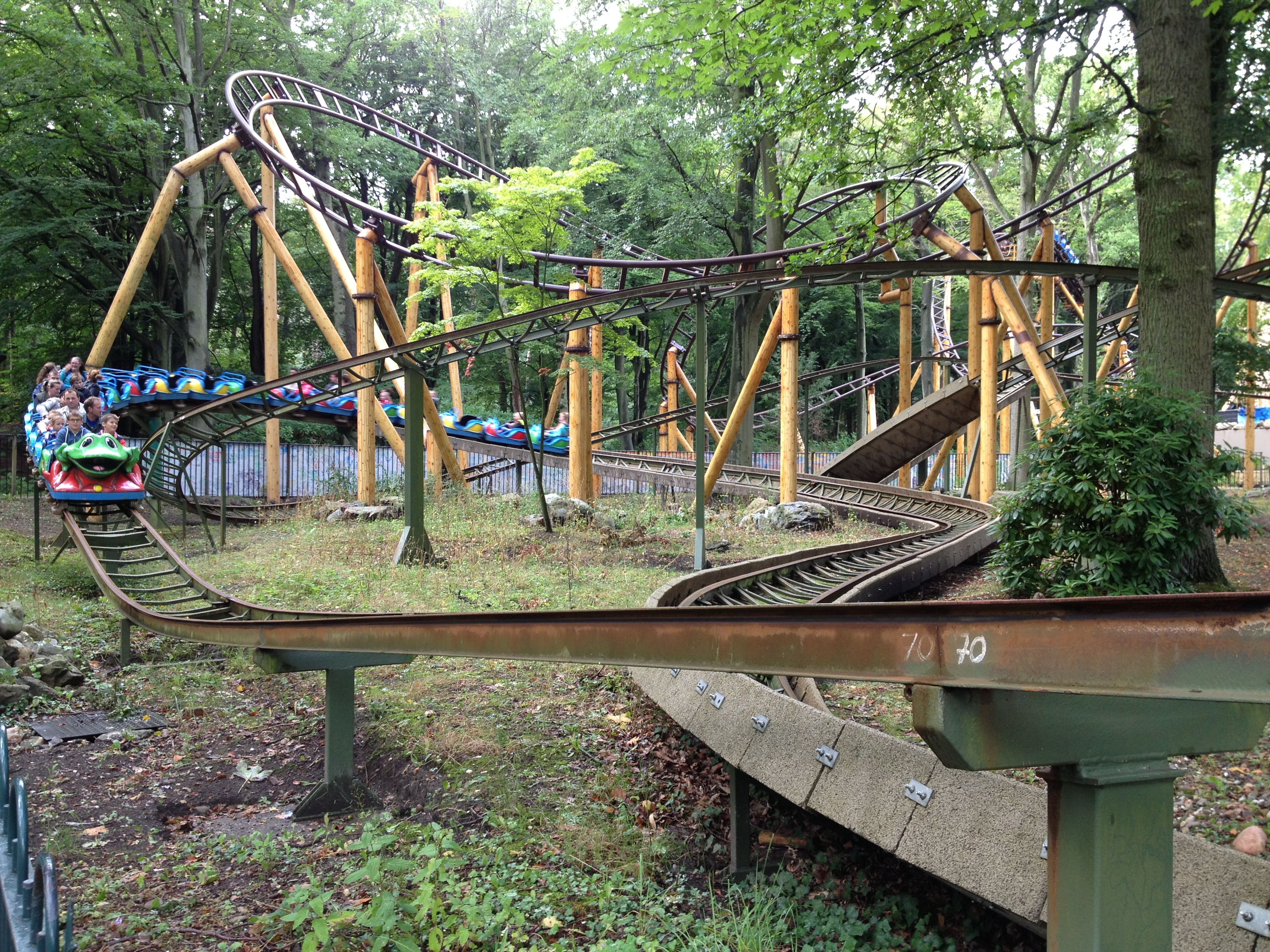 Kikker-8-Baan at Duinrell, the Netherlands.